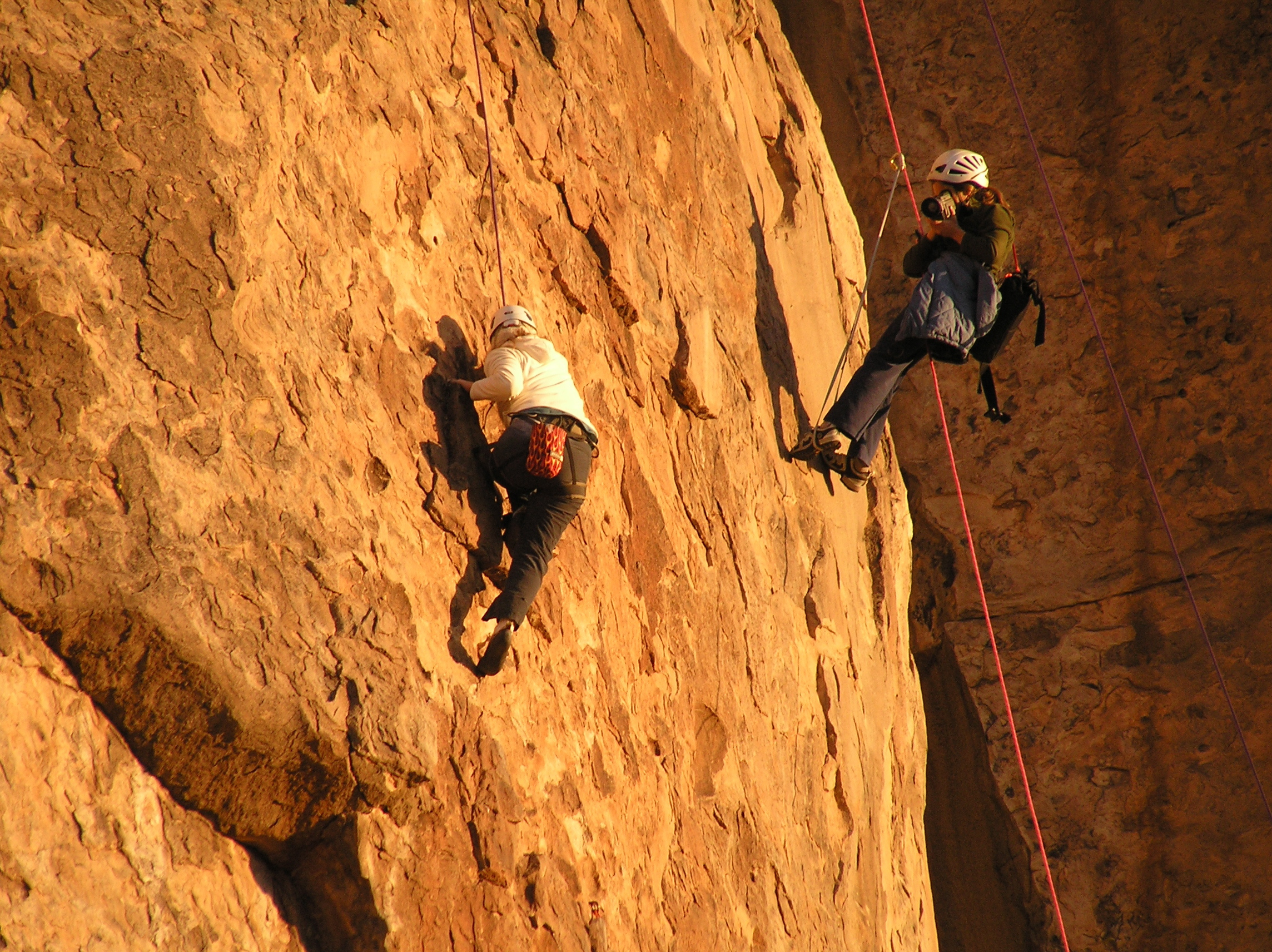 Lynn Hill videoing a climber at Hueco Tanks, Texas in December 2006 as part of Lynn Hill Climbing Camp.